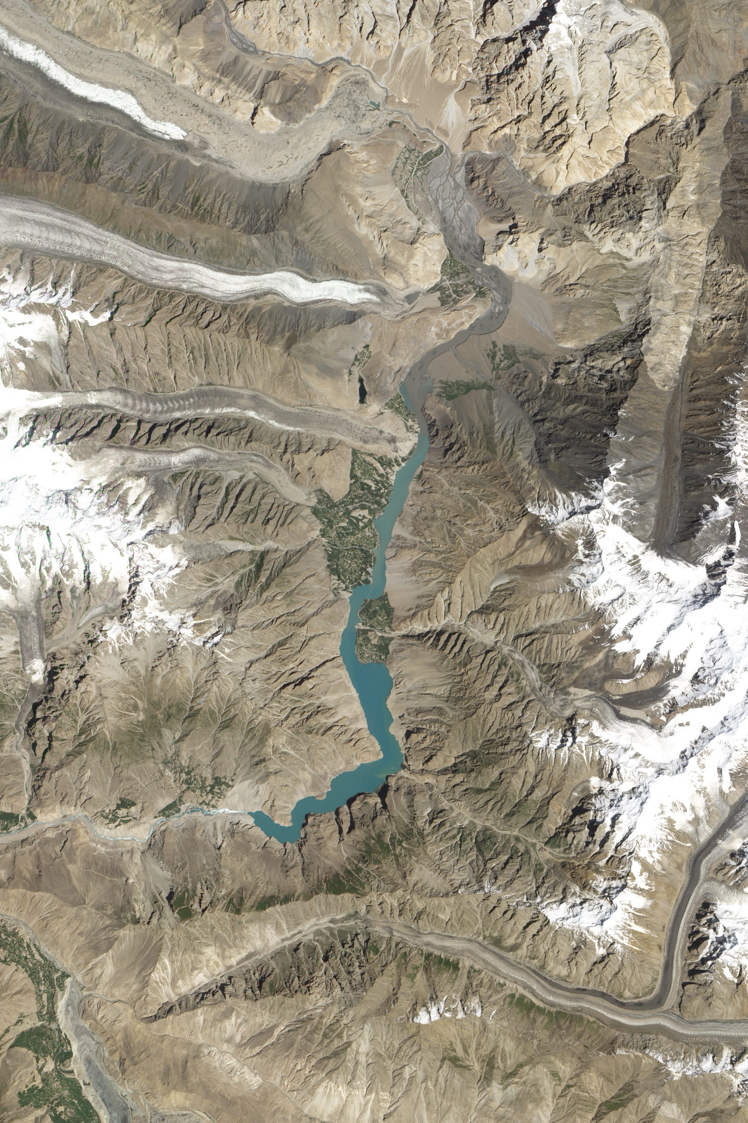 This natural-colour image shows an earthen dam formed by a landslide in the Hunza Valley and a lingering lake behind it. Engineers and army labourers carved a spillway through the dam, and water finally began flowing through it in late May 2010. At the southwestern end of the lake, whitewater rushes through the spillway. Elsewhere, the water appears blue-green.